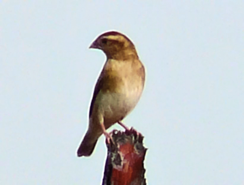 Village Indigobird, Female